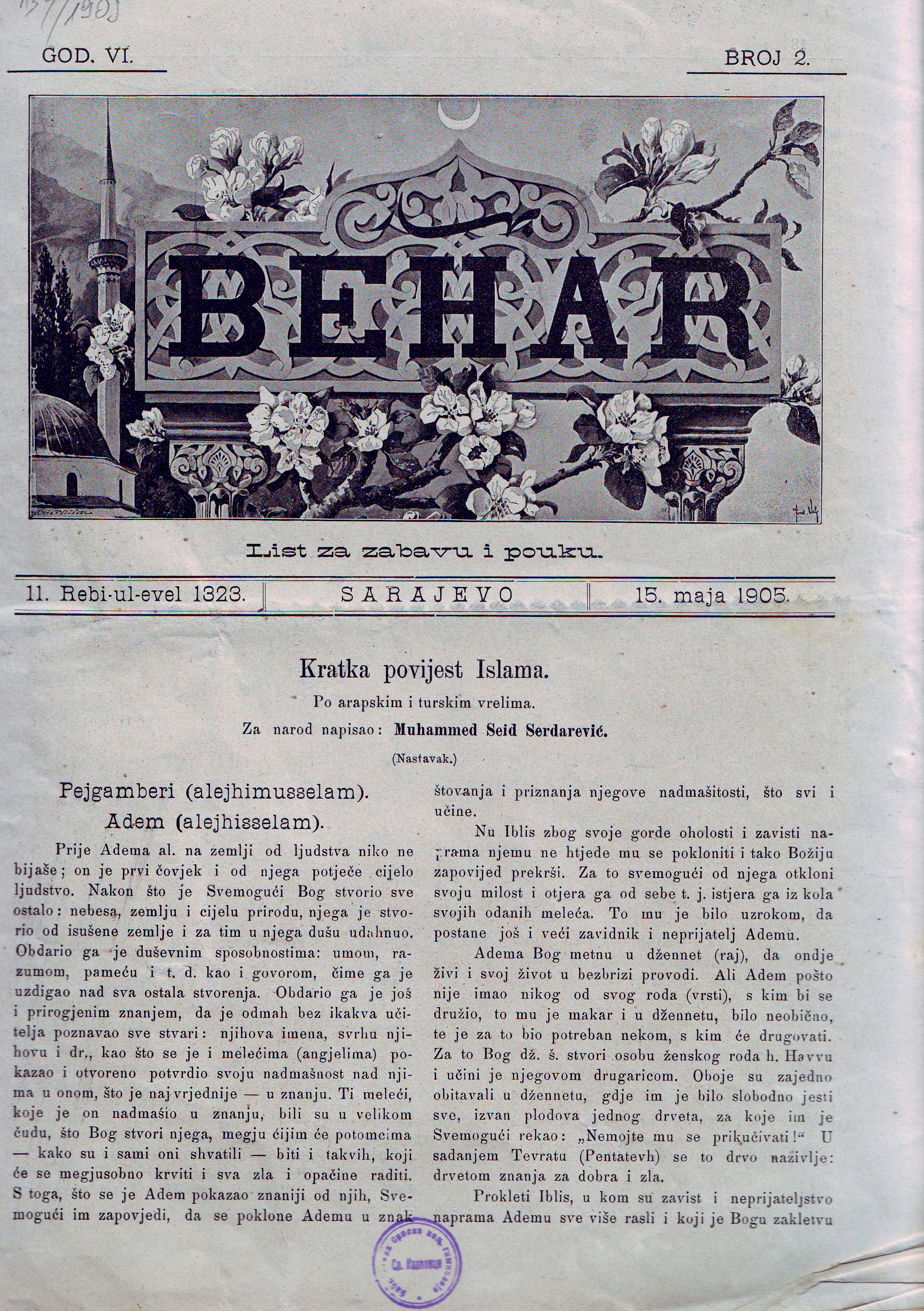 Front page of the newspaper Behar from 15 May 1905. Srpski (latinica): Naslovna strana lista Behar od 15. maja 1905. godine.